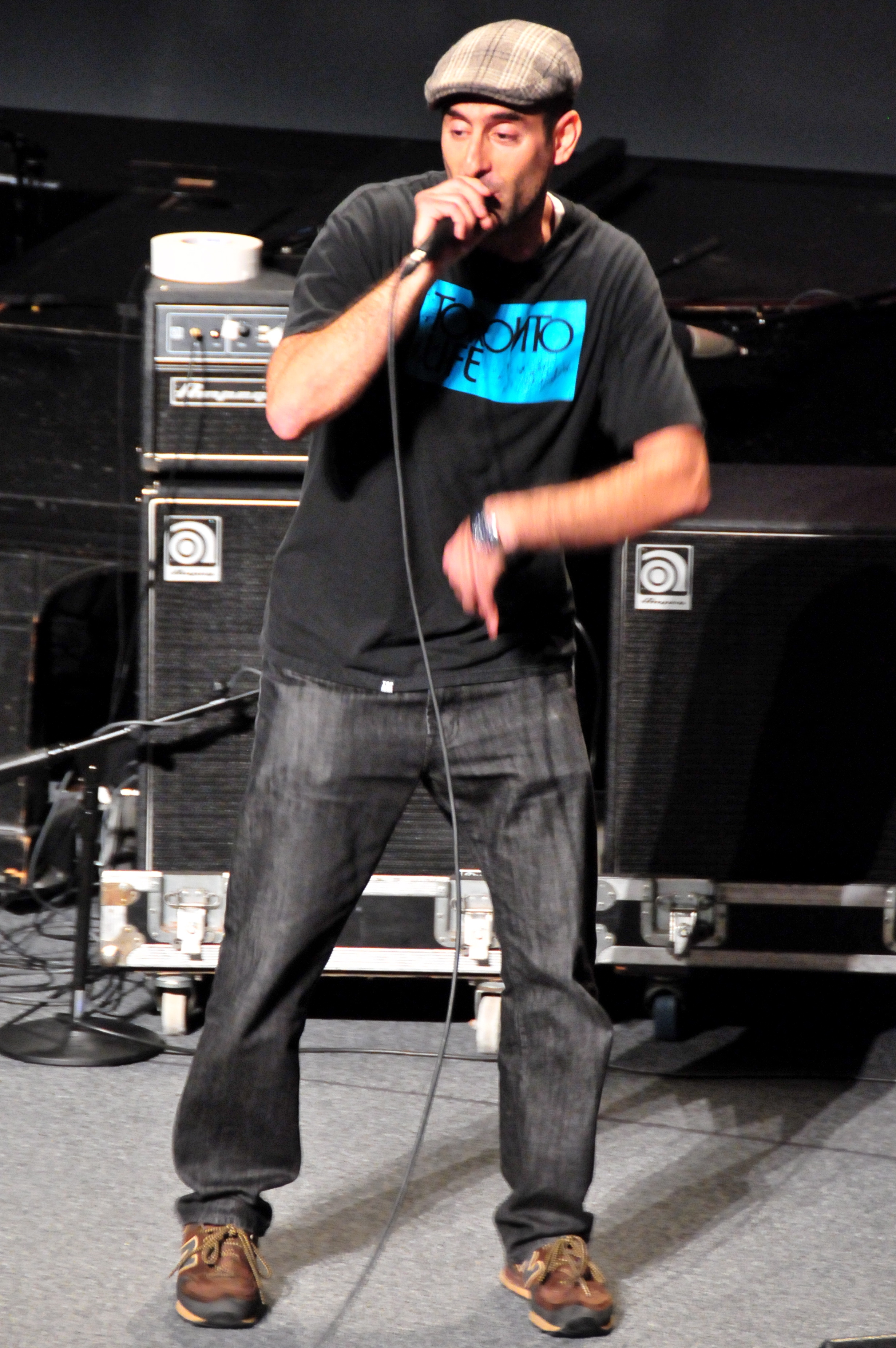 This is a Toronto-based hip-hop artist named Abdominal who provided some interesting entertainment on the afternoon of Day 3 of PopTech.